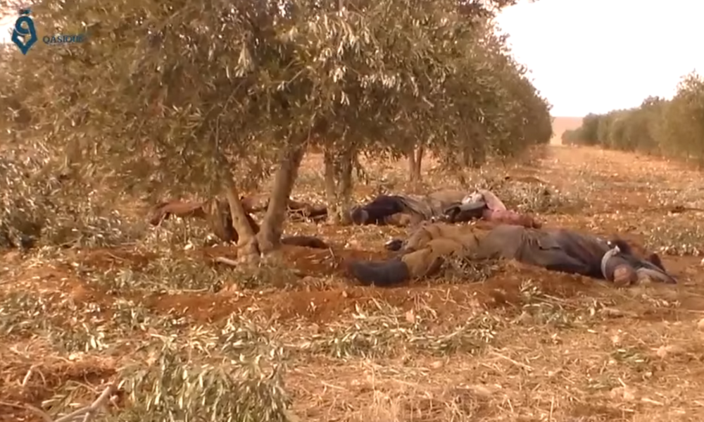 Killed ISIL fighters near Mahmudli during the Raqqa offensive in 2016.